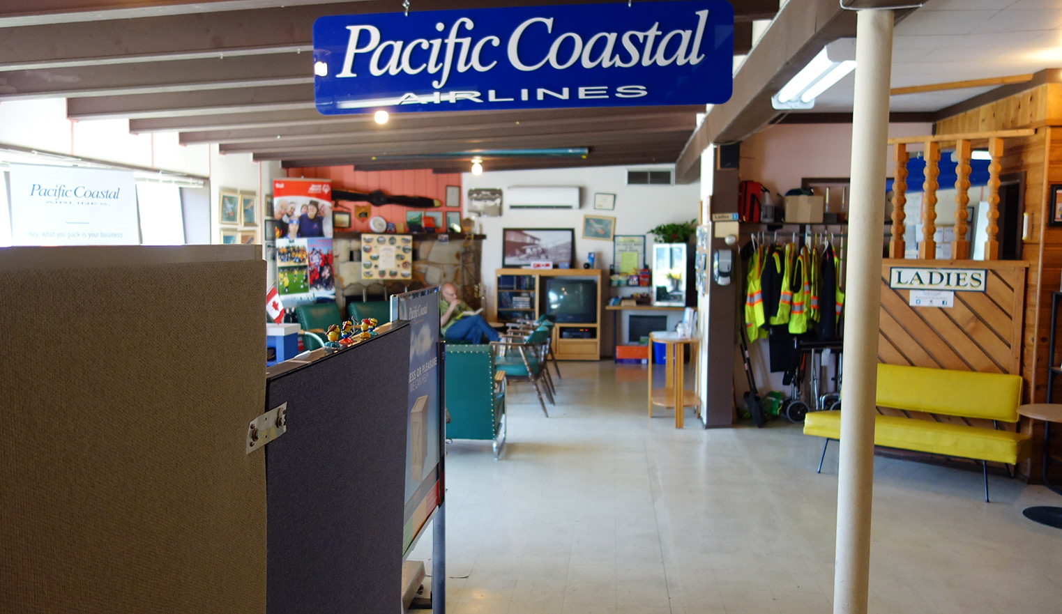 Terminal of Trail Airport, West Kootenays, British Columbia, Canada